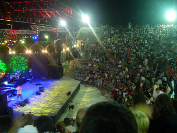 2008 Jazz San Javier Festival, Spain